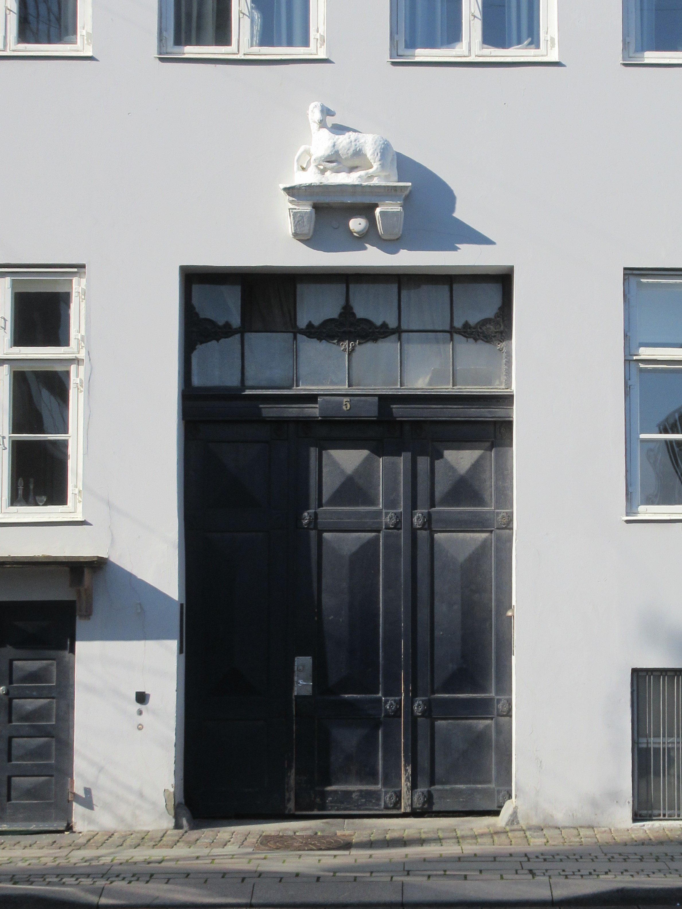 Kvæsthusgade 5 in Copenhagen, Denmark